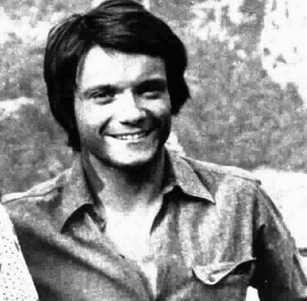 Italian singer and actor Massimo Ranieri